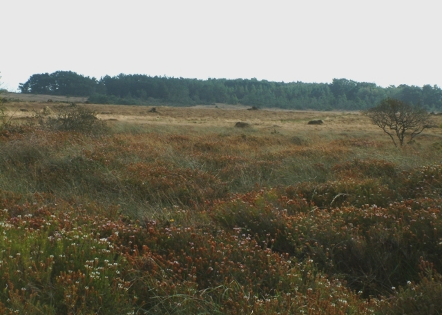 Goonhilly Downs Looking south towards Croft Pascoe woods. The dark lumps are not grouse butts but anti glider defences dug during WW2 to defend the military tracking stations on the Down from enemey raids. The heathland on Goonhilly Downs is part of the Lizard National Nature Reserve, a complex site that extends to some 1600 ha. The reserve is a complex of numerous isolated sites and has two main habitat types: coastal grasslands & heaths and inland heaths. The Lizard is noted for its rich flora with 18 rare plant species growing in the area. There is a diverse range of heathland and coastal habitats and the heathland supports a diverse collection of heathers including the rare Cornish heath, a type unique to the area and seen in the foreground of this photo.